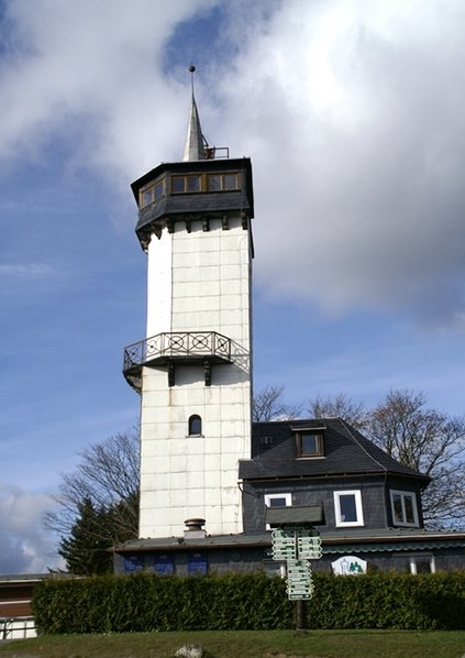 Fröbel Tower near Oberweißbach, Germany.